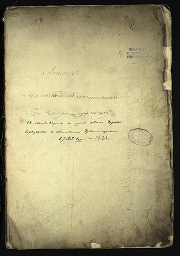 The Atlas for some provinces of Russian Empire, containing 9 maps and 1 city map of Irkutsk. 1722 - 1731.